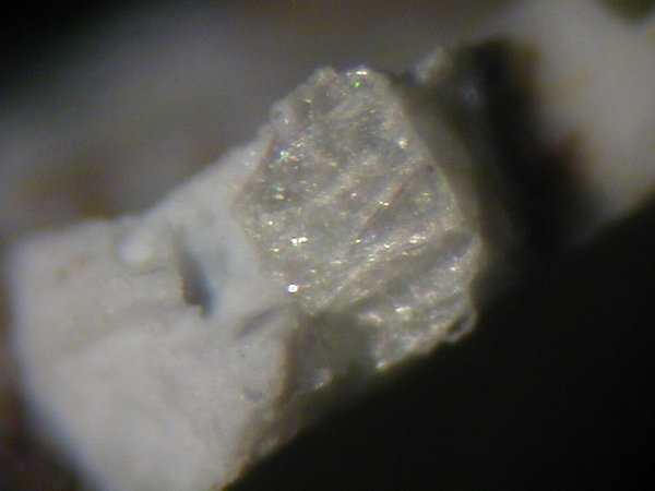 Pearly Kuzelite (Picture size: 1.7 mm) Locality: Bellerberg, Eifel, Rhineland-Palatinate, Germany